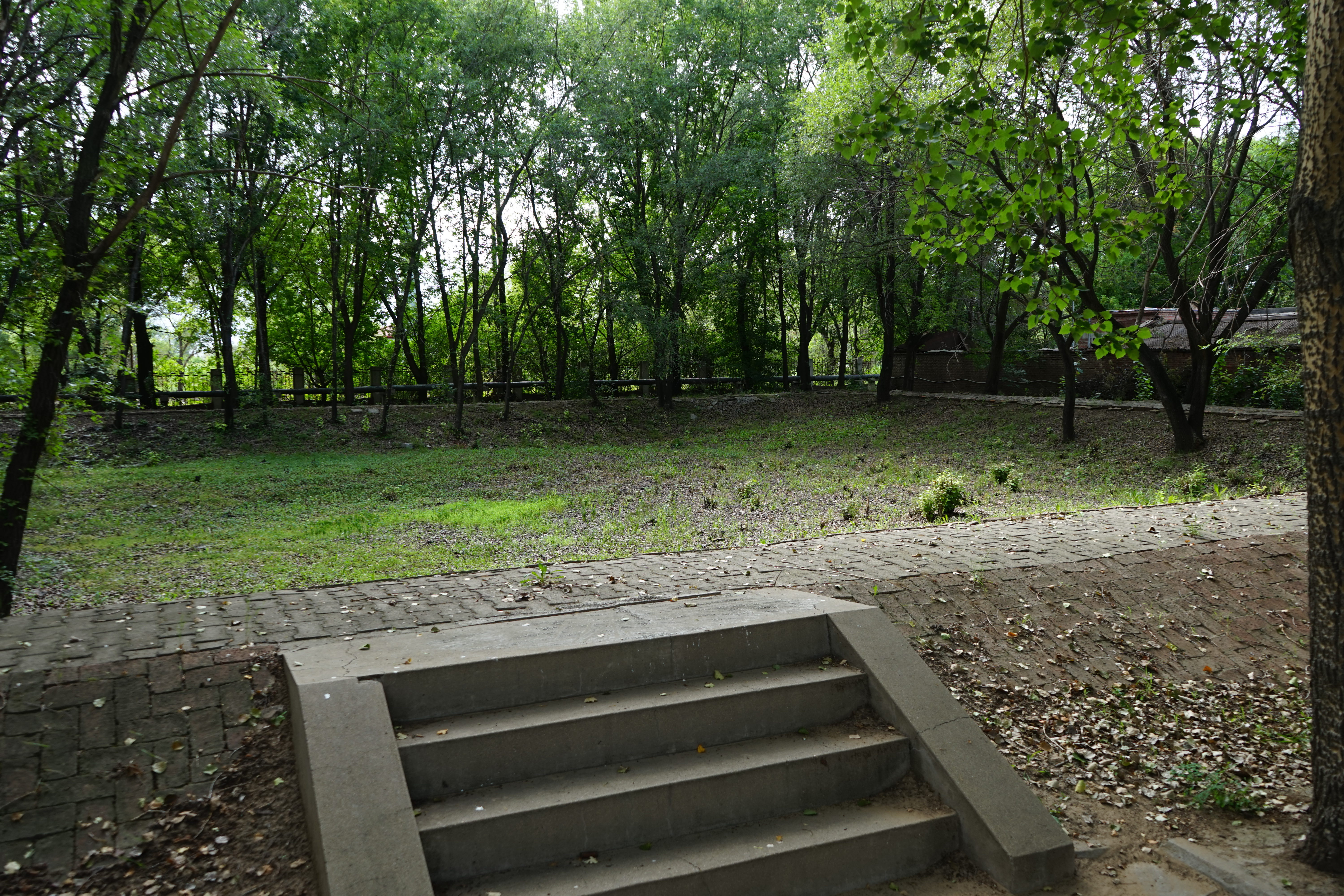 Site of the earth storage near Well Sa-55. Wang Jinxi and his collegues digged the storage to store up the oil for test.